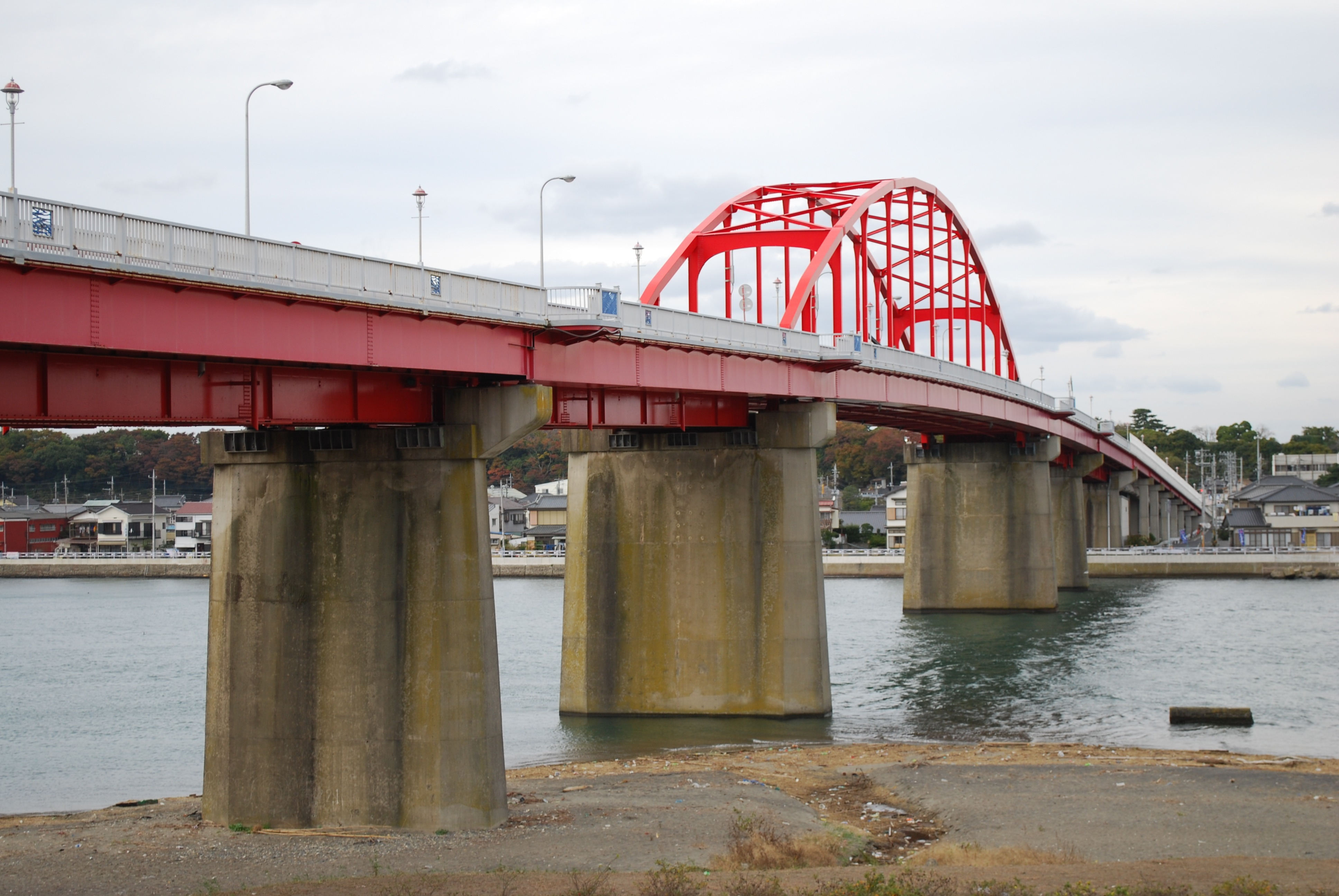 The Kaimon Bridge in Hitachinaka City and Oarai Town, Ibaraki Prefecture, Japan